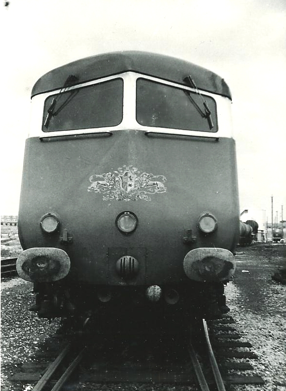 Front end of Metropolitan Cammell 8-car "Blue Pullman" dmu (for working “The Bristol Pullman” and "The South Wales Pullman") Type 1 1,000hp power car No.W60097 leading, in Nanking Blue & White Pullman livery at the Open Day at Old Oak Common depot, 07/67. Note elongated Pullman crest on nose - and no yellow warning panel. Also note the air horns below the buffer beam and the lack of jumper cables. It could be said that the concept of the Blue Pullmans was a precursor of the HST's. Scanned photograph taken with a Kowa SET.